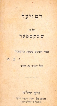 The title page of the 1878 translation of Romeo and Juliet (Hebraized as "Ram and Ya'el") by Salkinsohn, the second full Shakespearean play rendered into Hebrew, published in Vienna.